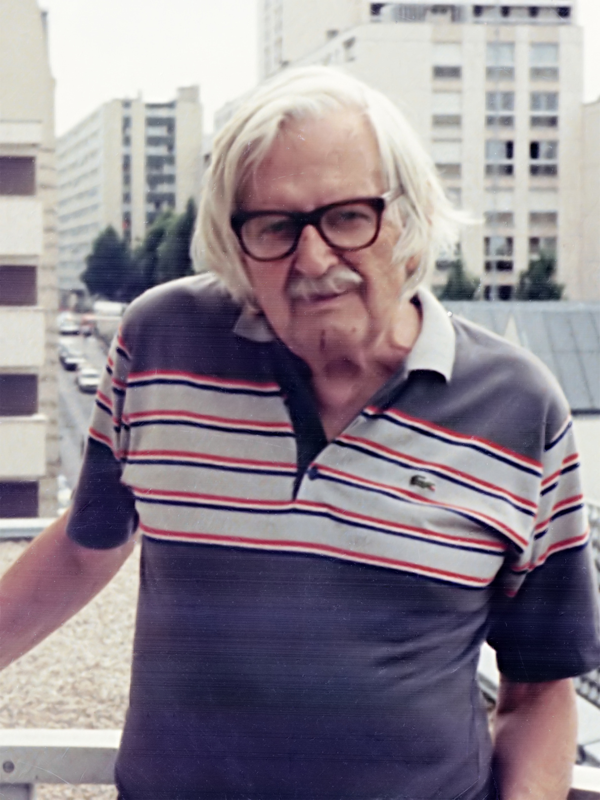 Jack Belden on the balcony of his apartment in Paris, France.